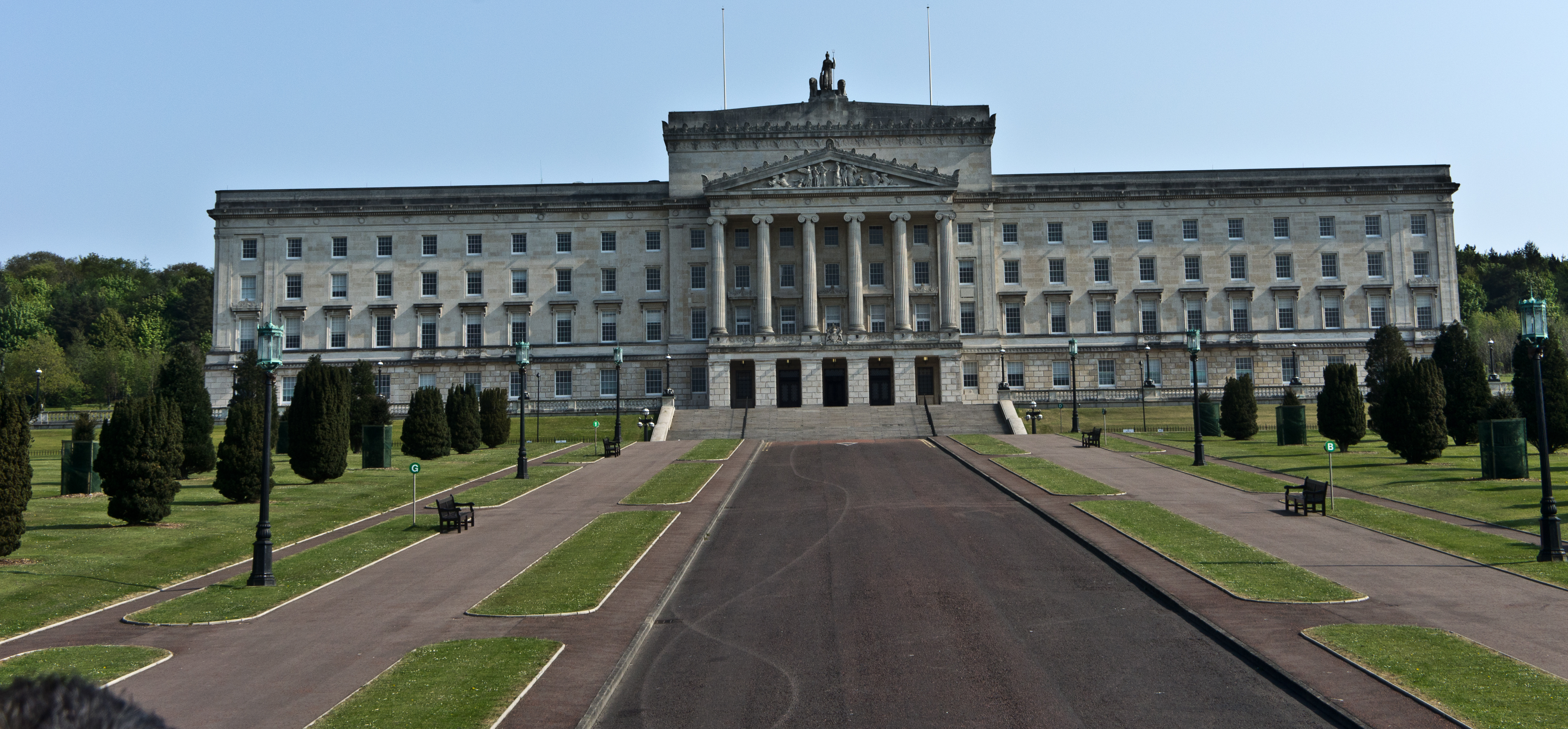 The Parliament Buildings, known as Stormont because of its location in the Stormont area of Belfast, is the seat of the Northern Ireland Assembly and the Northern Ireland Executive. It previously housed the old Parliament of Northern Ireland, which was commonly referred to simply as "Stormont". On the drive leading up to the building There is statue to Edward Carson in dramatic pose. Erected in 1932 it is a rare example of a statue to a person being erected before their death